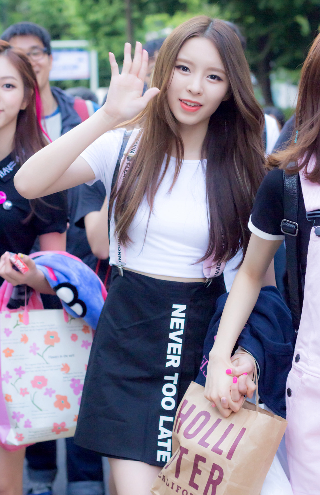 160603 CLC's Elkie on the way to Music Bank recording.